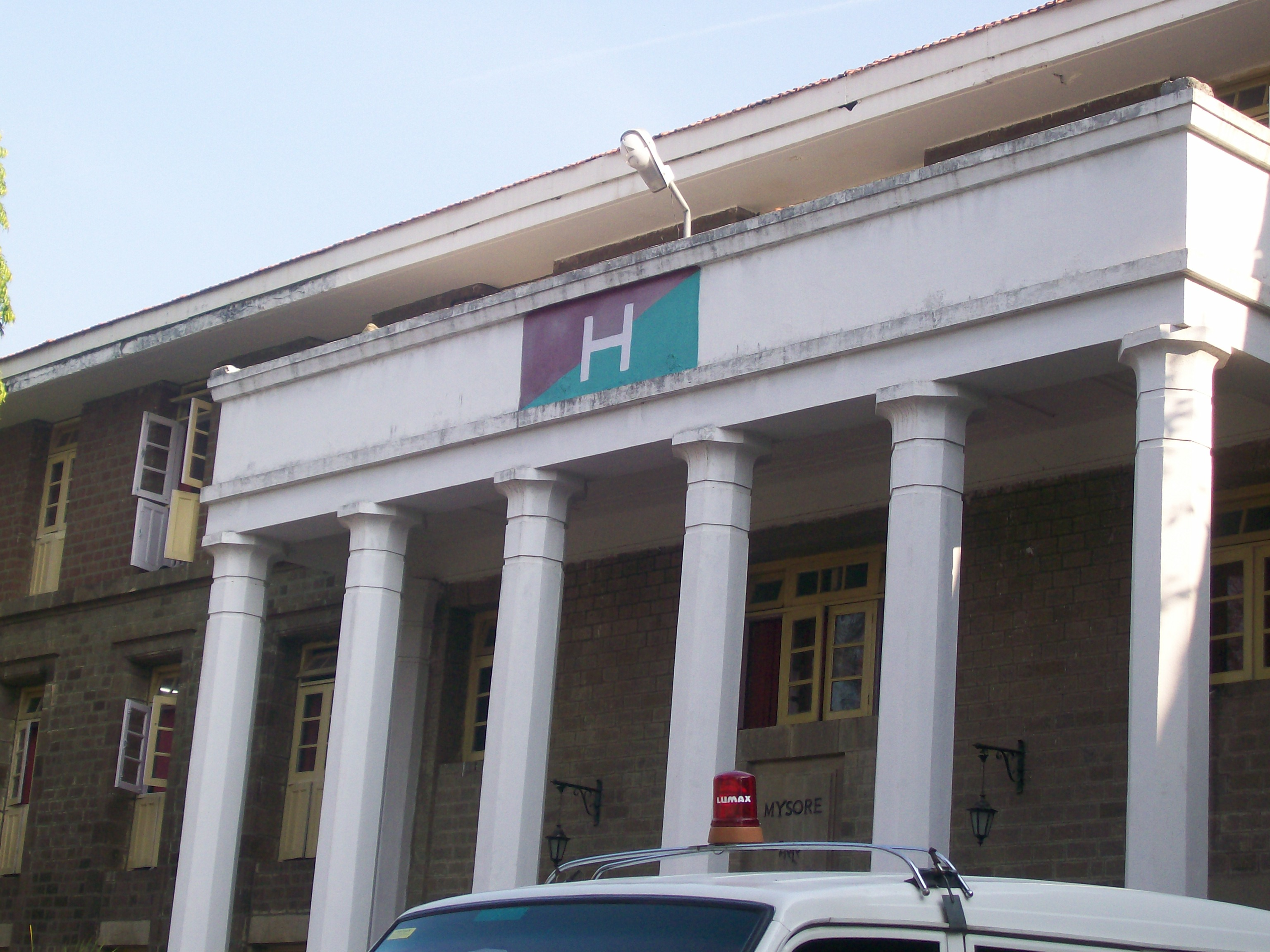 The Hunter squadron at NDA